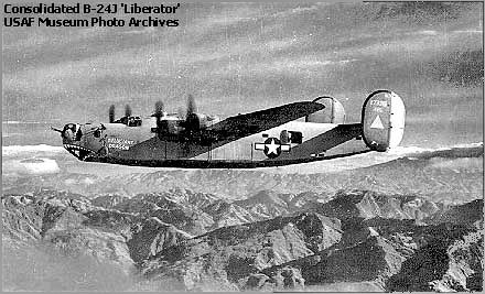 B-24 of the 98th Bomb Group